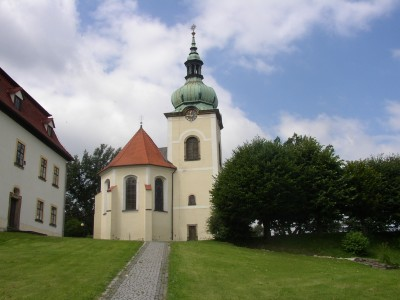 Church in Jiřetín pod Jedlovou, Czech Republic.